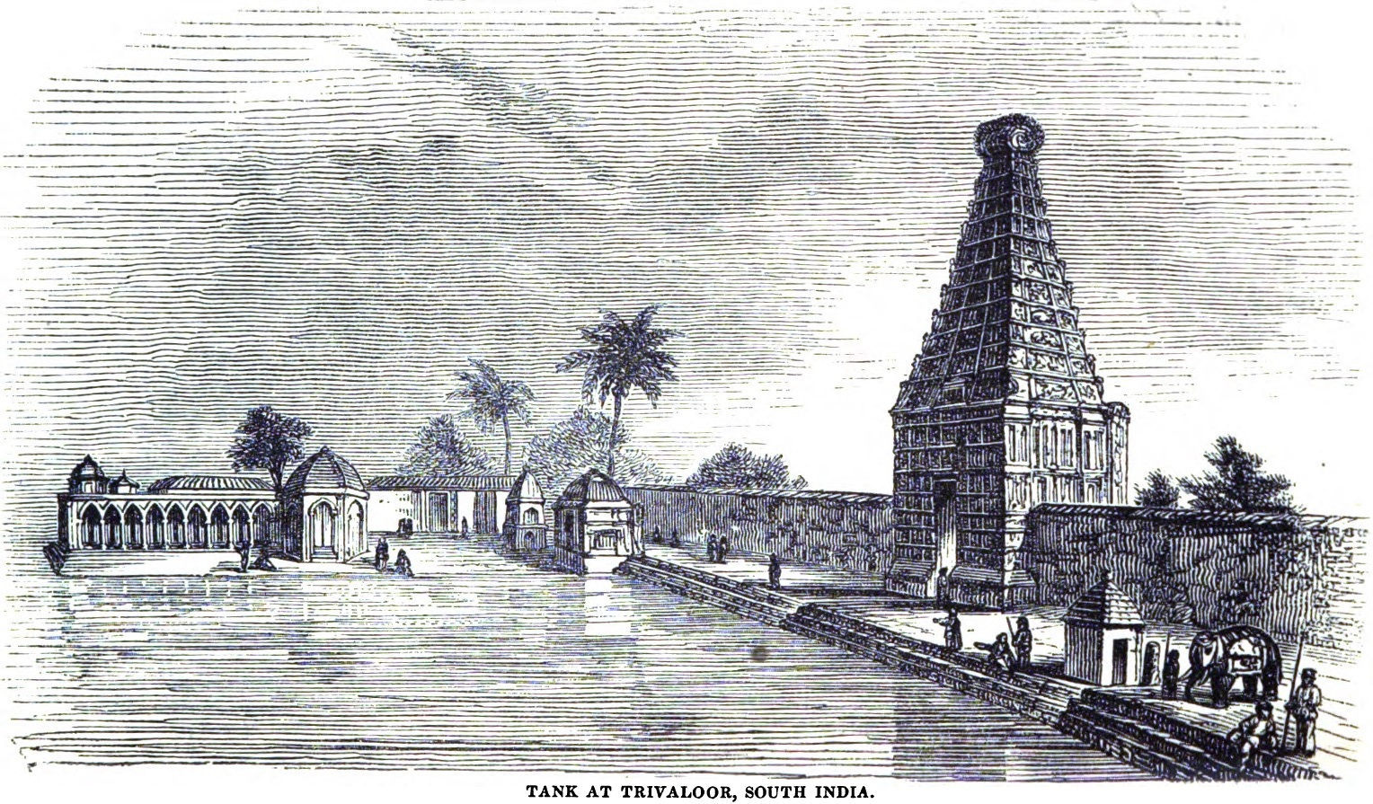 Temple and Tank at Trivaloor, South India (April 1848, p.36, V)